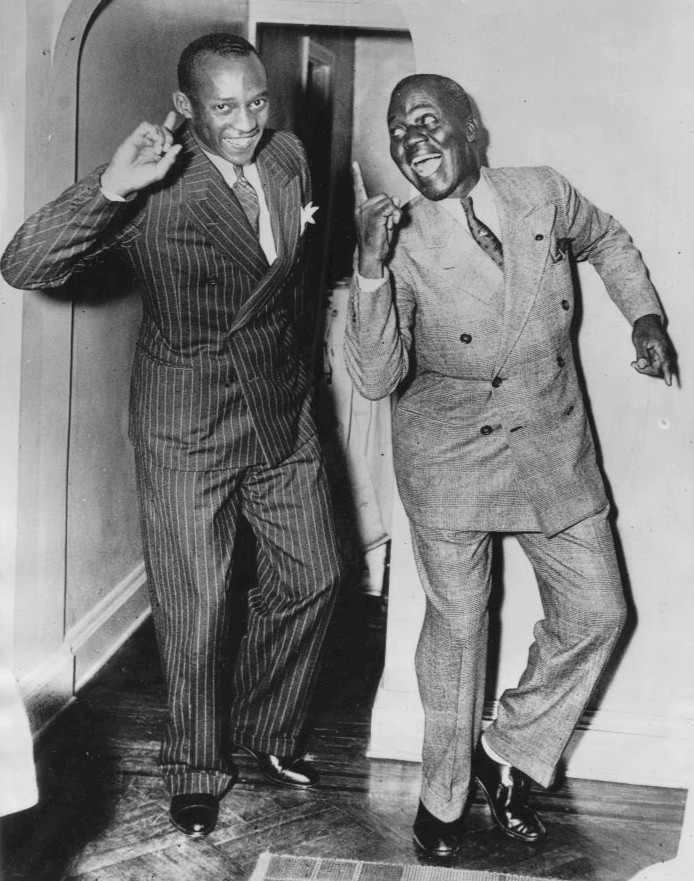 Photo of Jesse Owens (left) and Bill Bojangles Robinson after Owens' return from his 1936 Olympic victories.